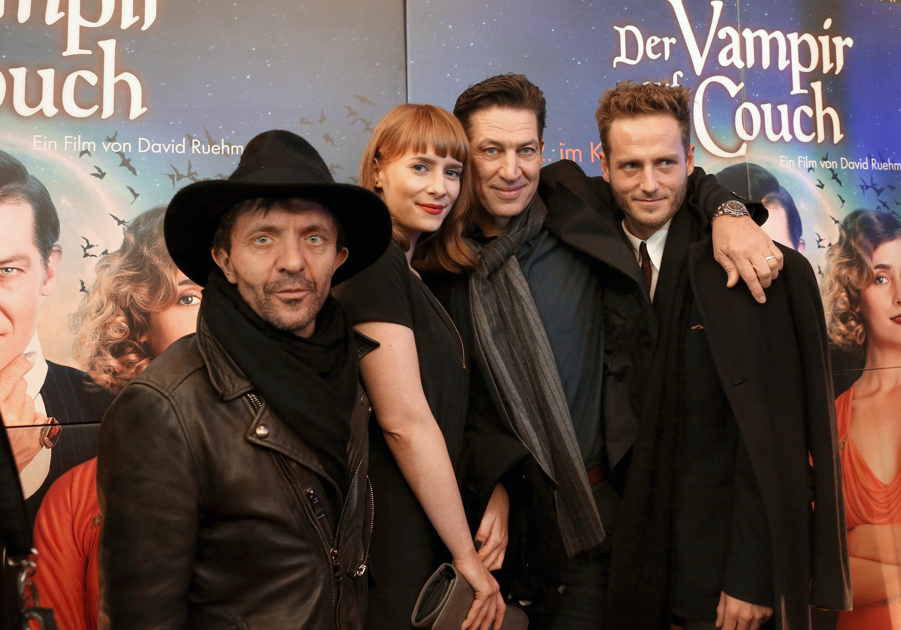 David Bennent, Cornelia Ivancan, Tobias Moretti and Dominic Oley (l.t.r.) at the premiere of the movie Therapy for a Vampire at Gartenbaukino in Vienna, Austria.